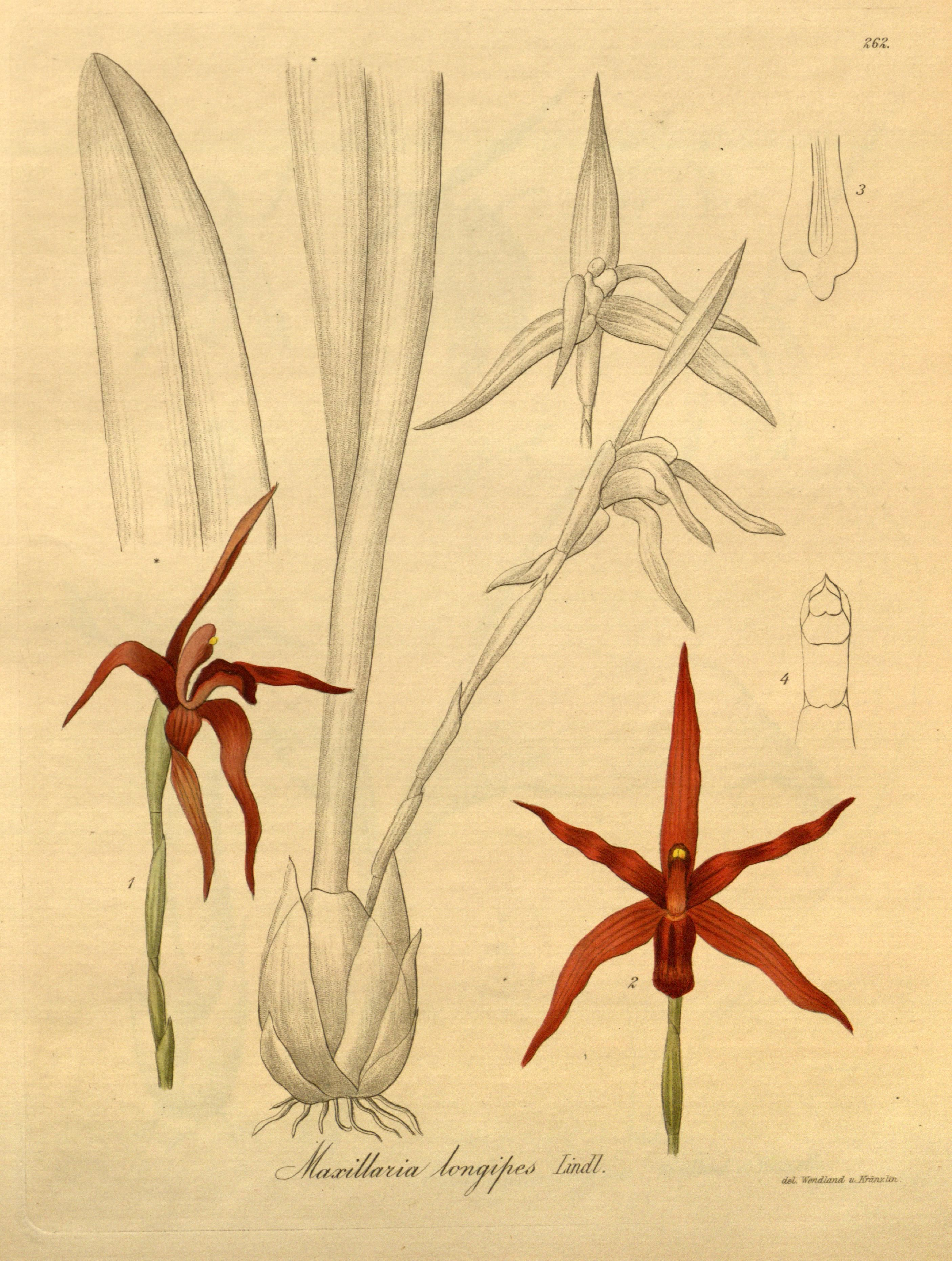 Illustration of Maxillaria longipes